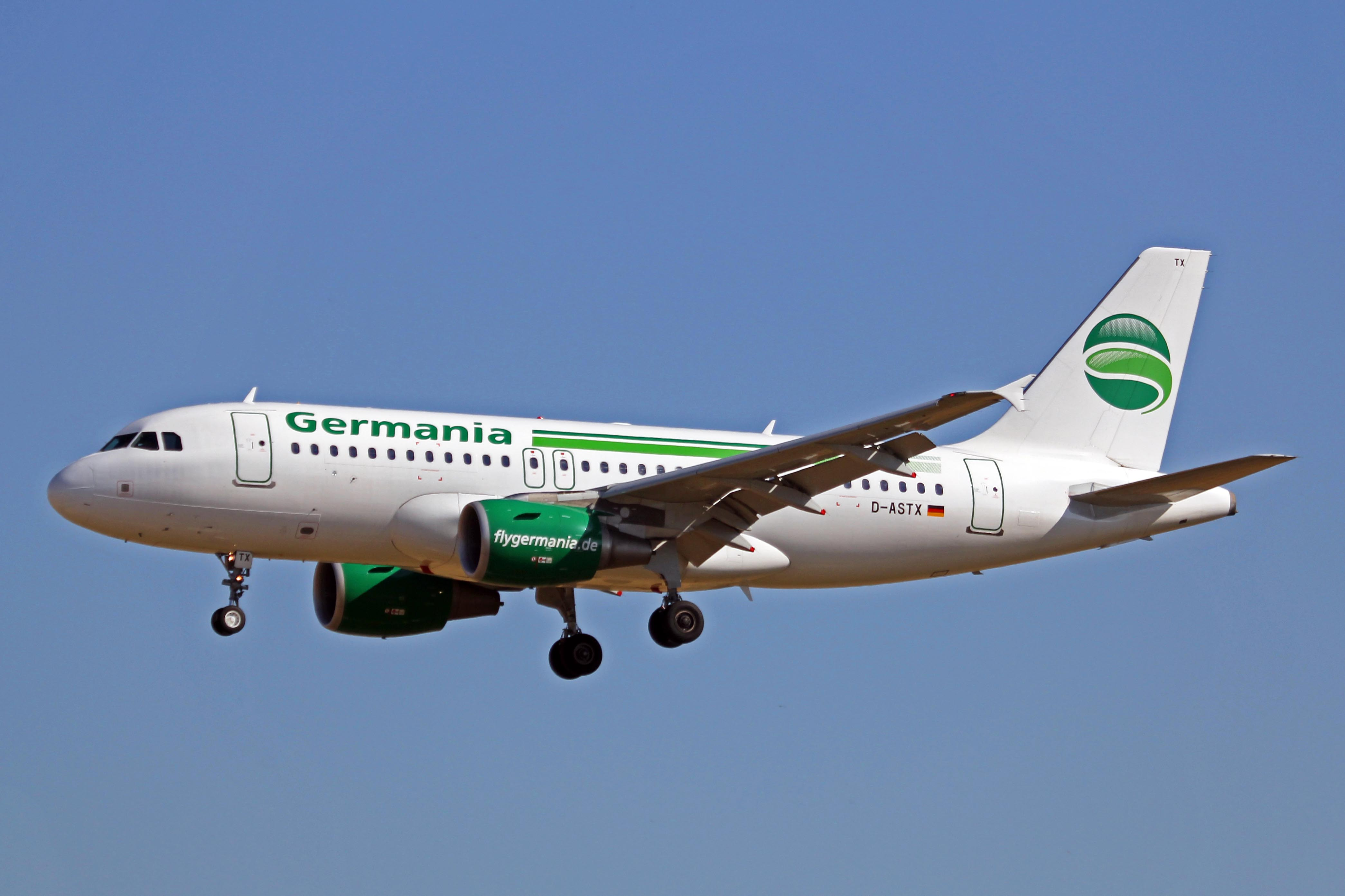 A picture of an airplane (name of it is on the file name).